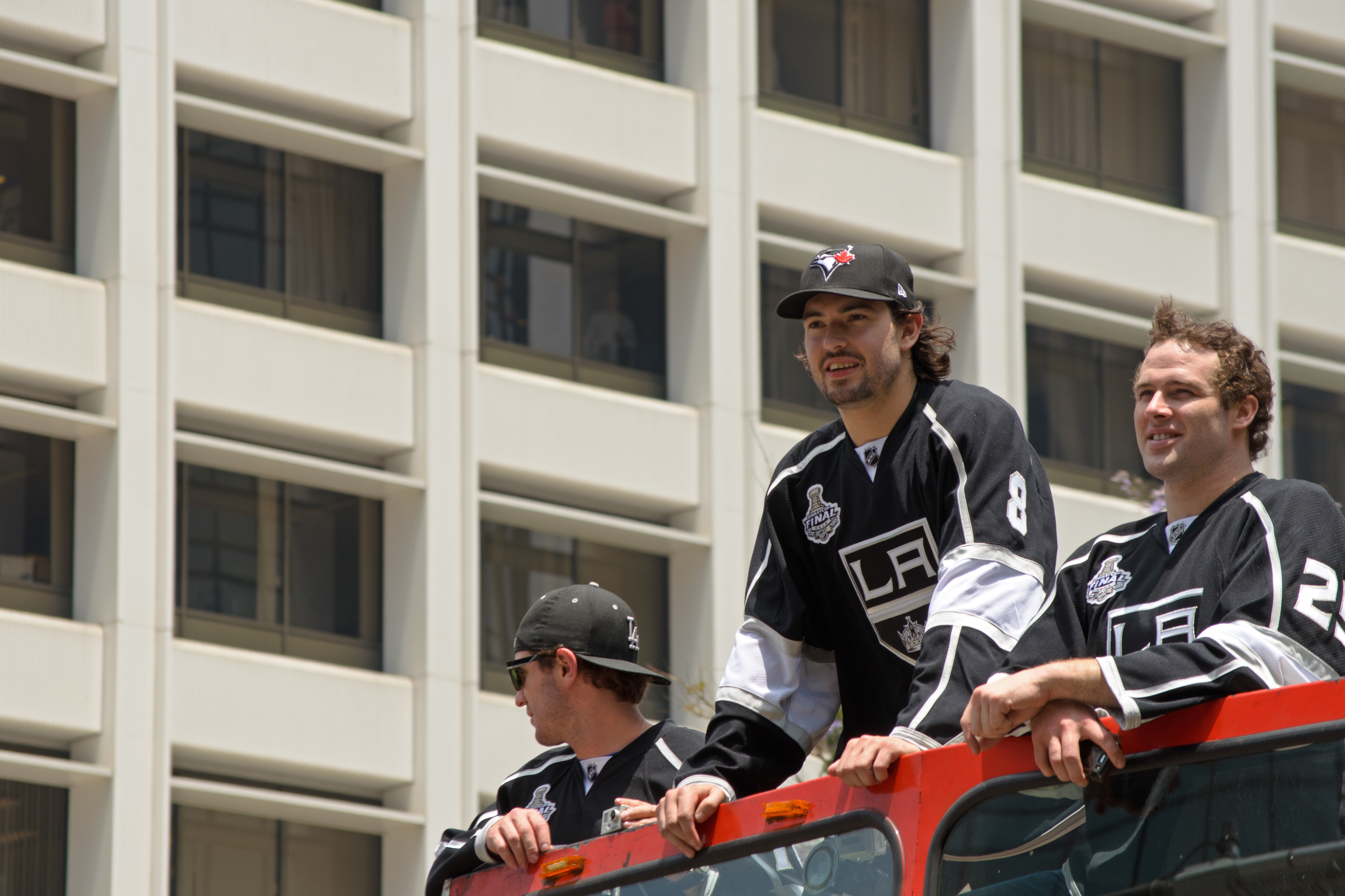 Doughty and Penner during victory parade.